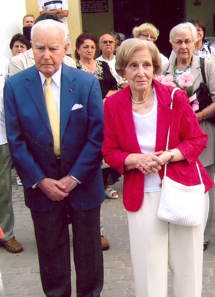 Władysław Zachariasiewicz (Walter Zachariasiewicz, born November 7, 1911 in Cracow, Poland - Polish military officer and soldier of World War II, veteran, Activist of Polish diaspora in USA), and his wife, Adeline C. Zachariasiewicz (b. January 10, 1919 in Connecticut).